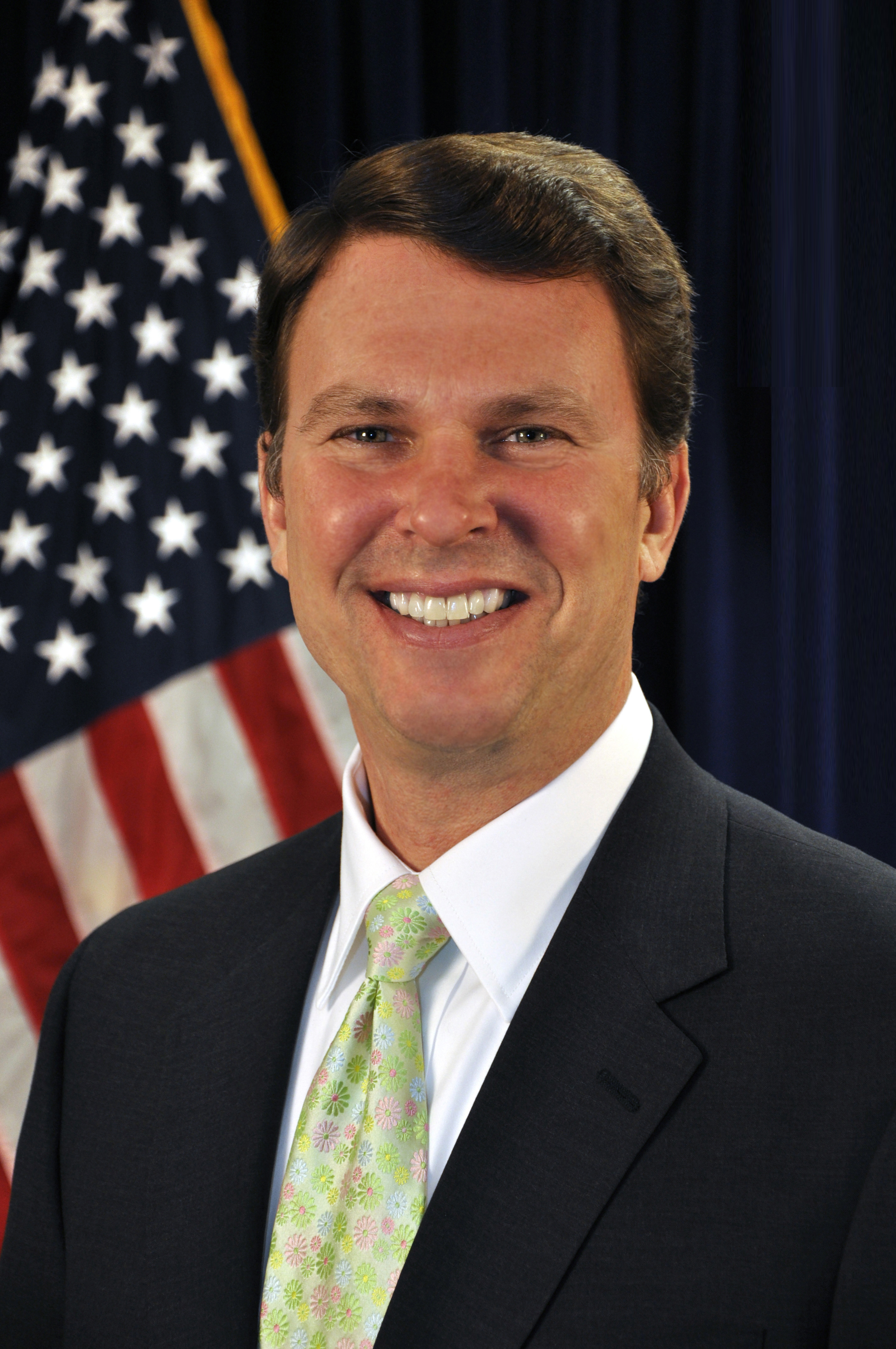 Official portrait of John Berry